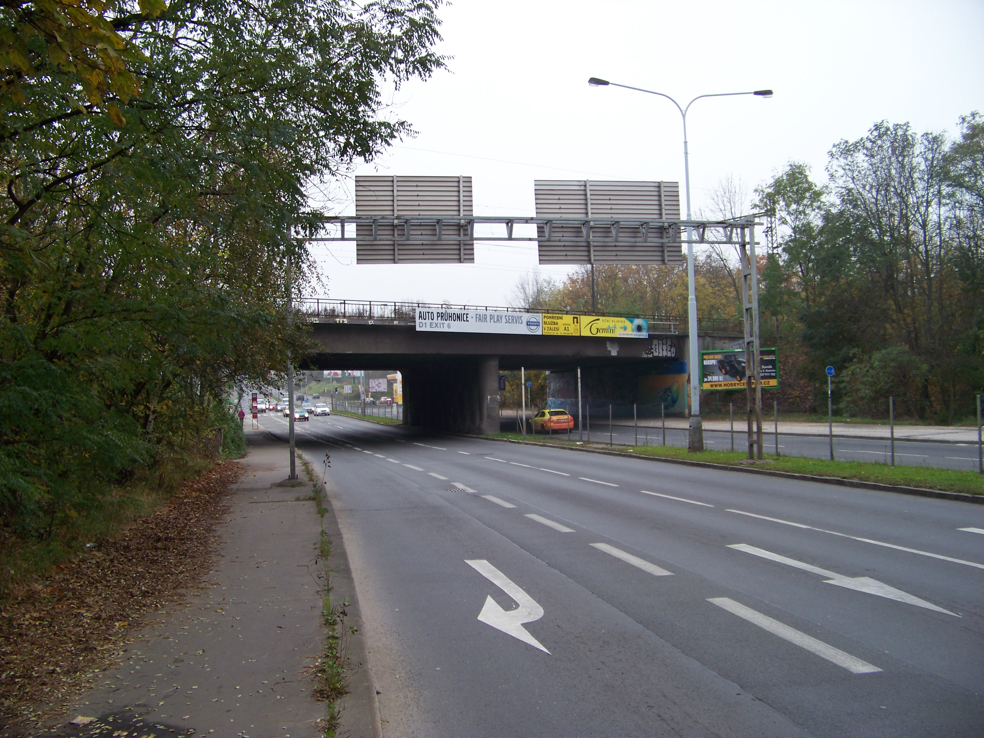 Prague-Michle and Krč, Czech Republic. Vídeňská street, a railway bridge.